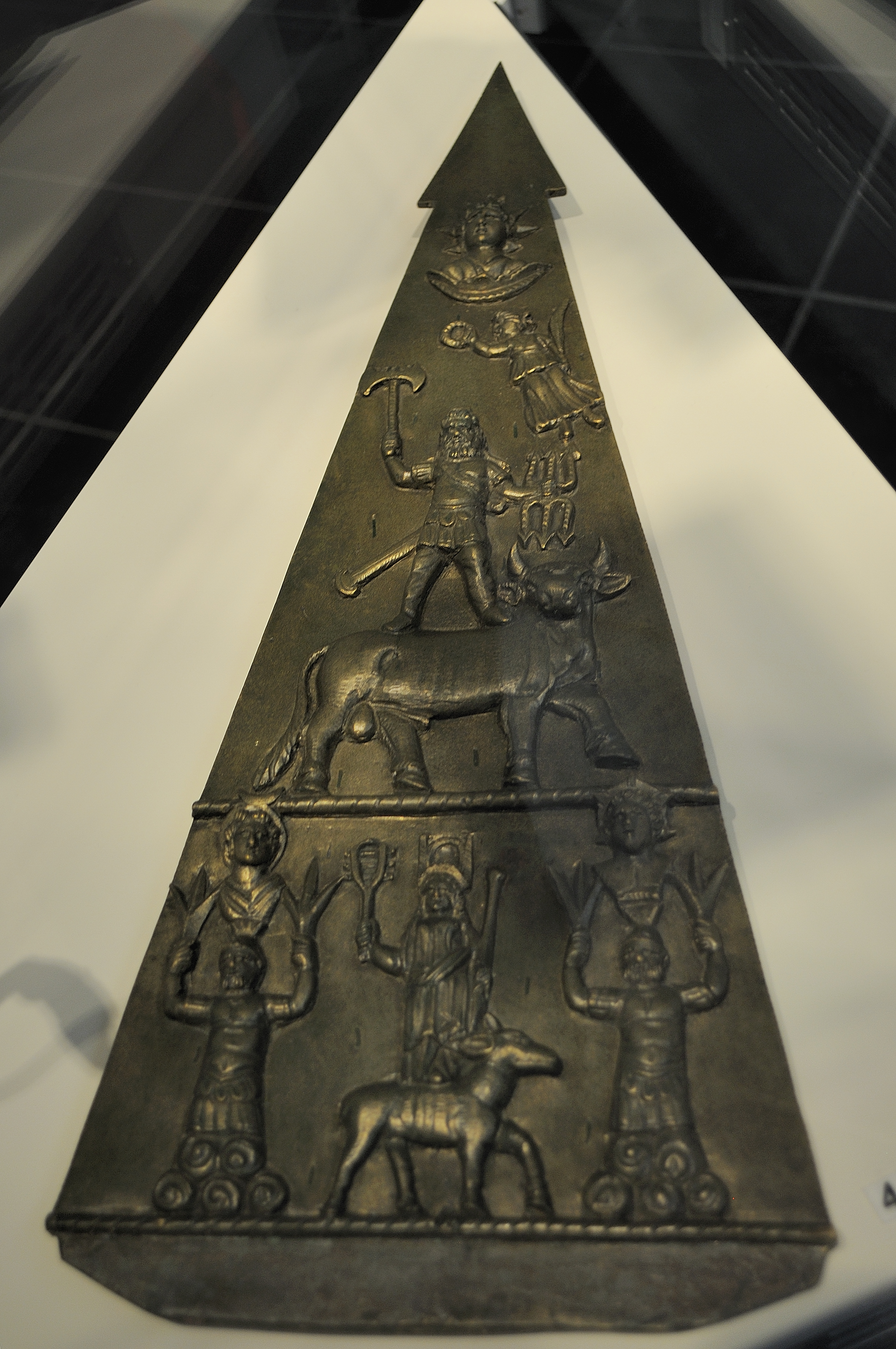 Picture taken in the Roman history museum in Osterburken.